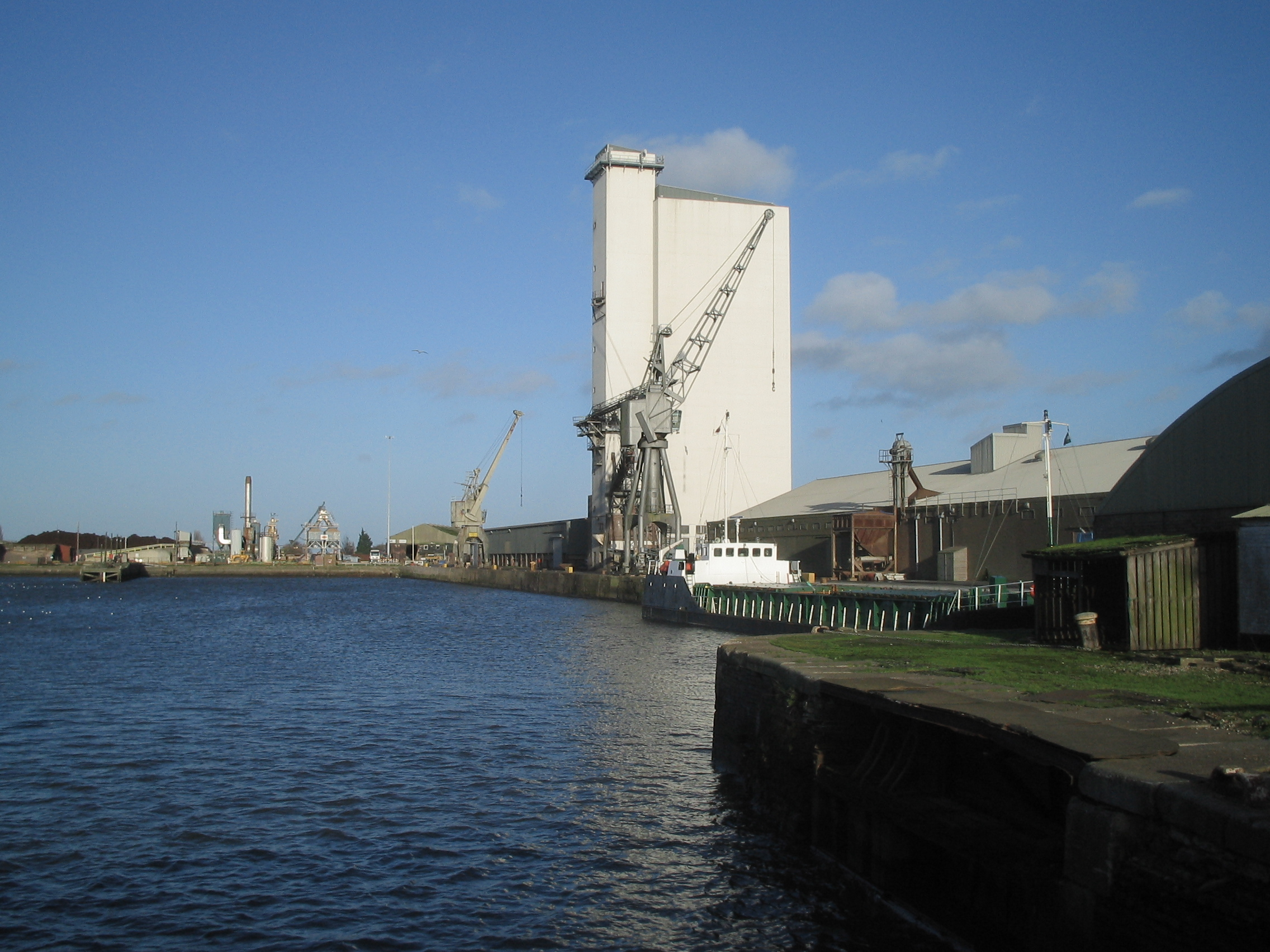 The docks at King's Lynn The photograph was taken by myself (Ben Dickson) on December 3rd 2006 with a Canon iXus i Digital Camera.